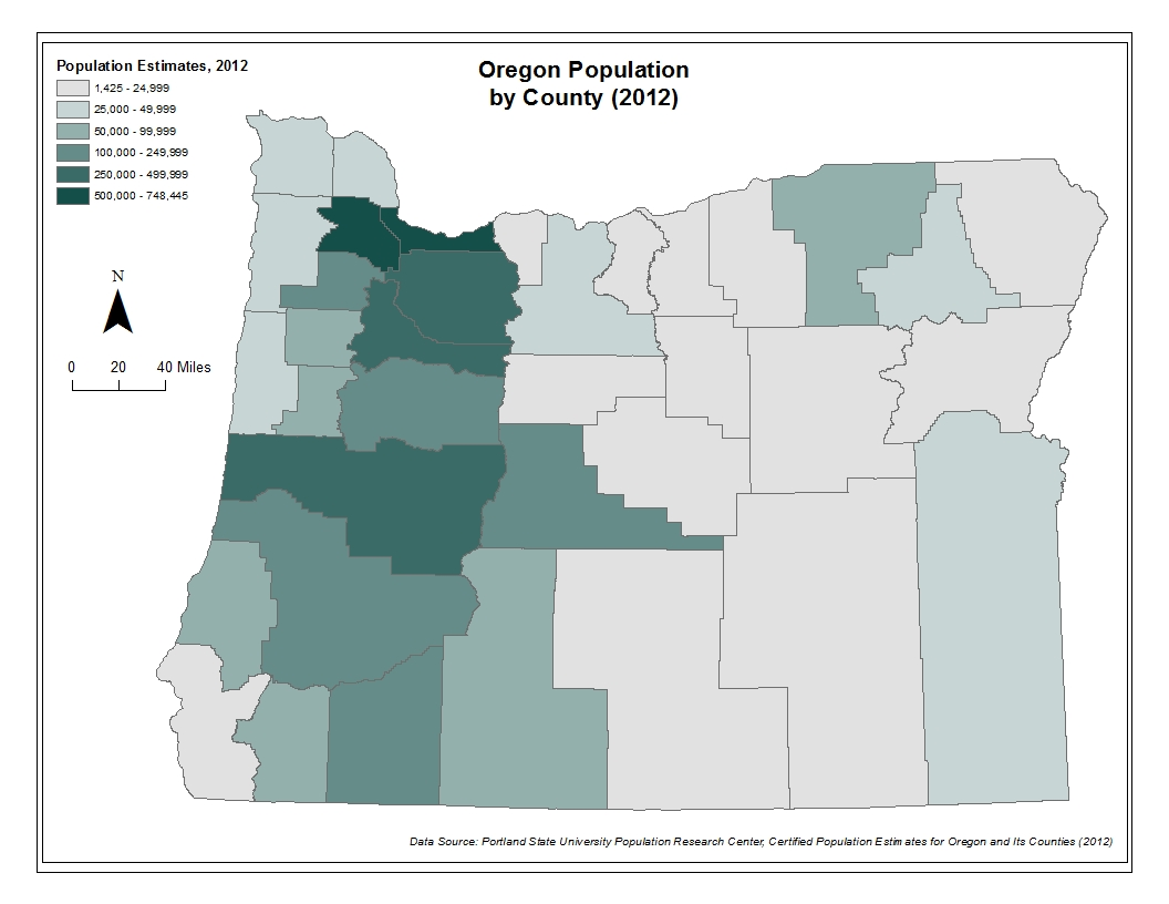 Oregon population by county using 2012 estimates; data from